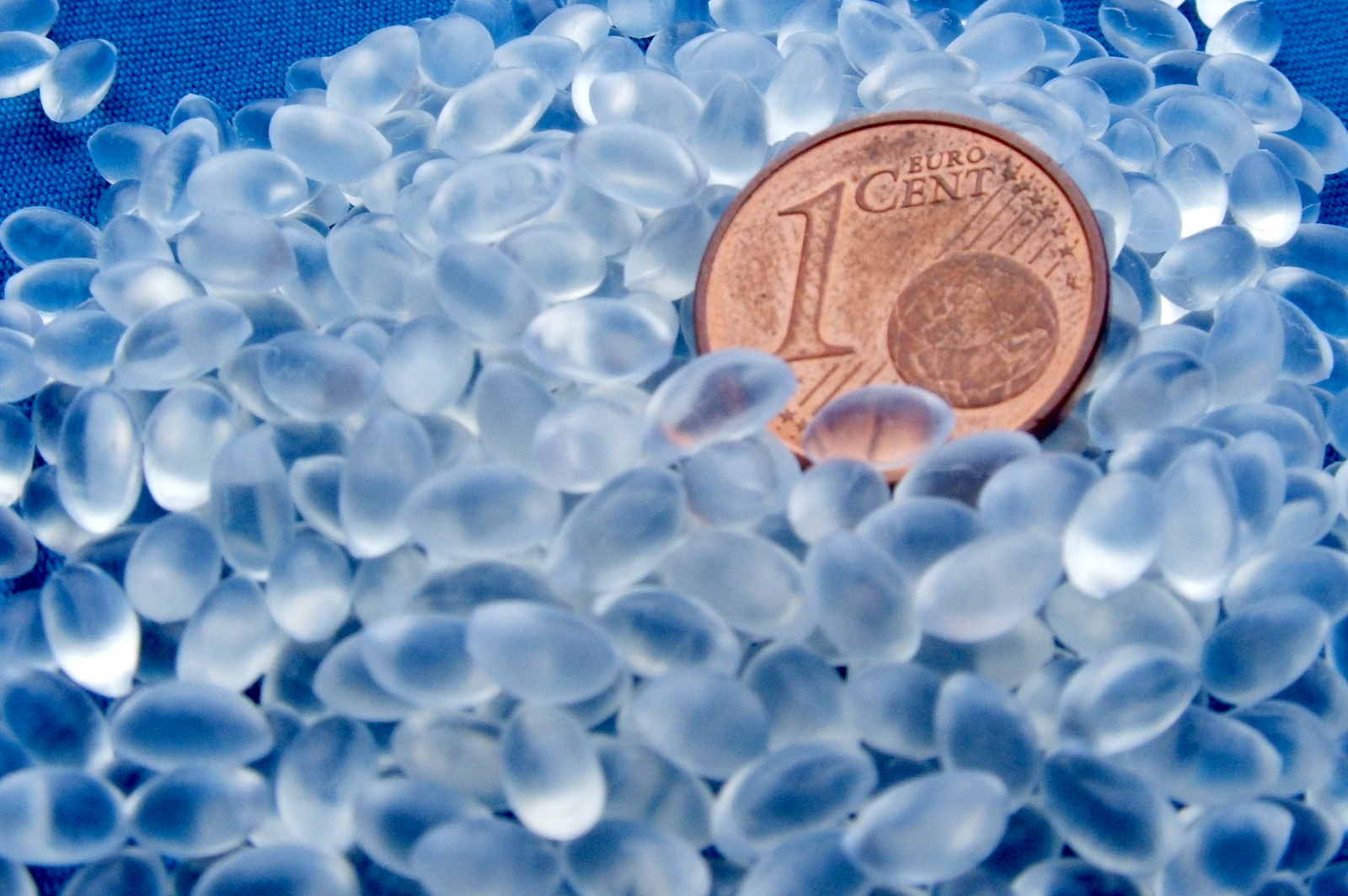 Chips of thermoplastic Urethane (TPU)